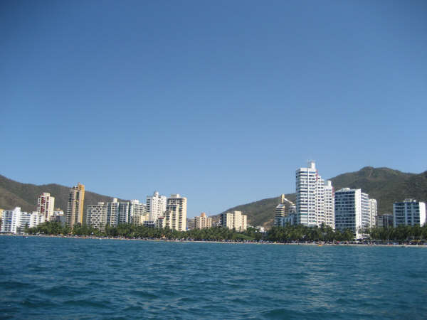 Image of the Rodadero - Santa Marta, Colombia